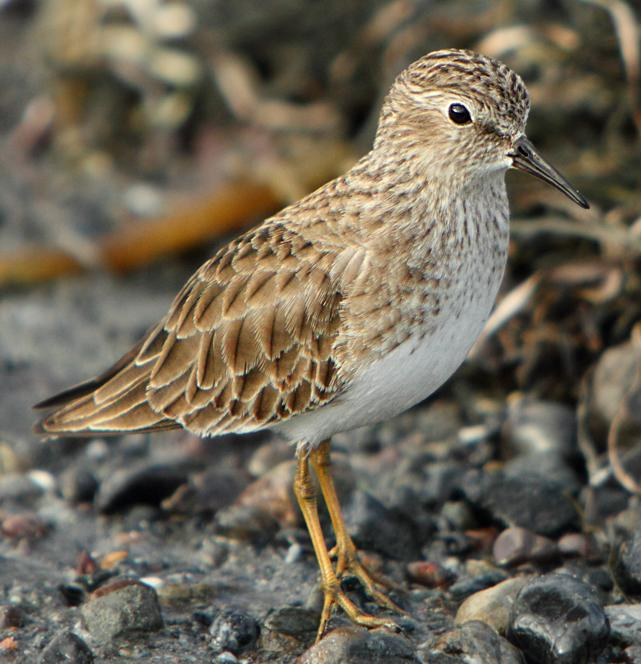 Least sandpiper (Calidris minutilla) foraging on the rocky beach......2